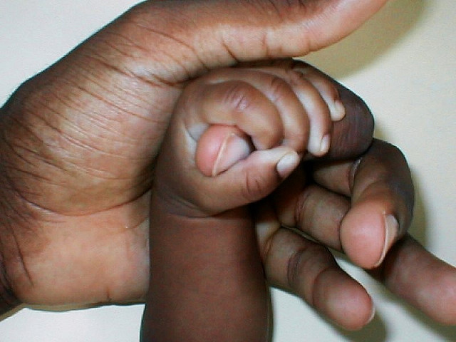 original description: picture of my son at 4 months gripping my finger